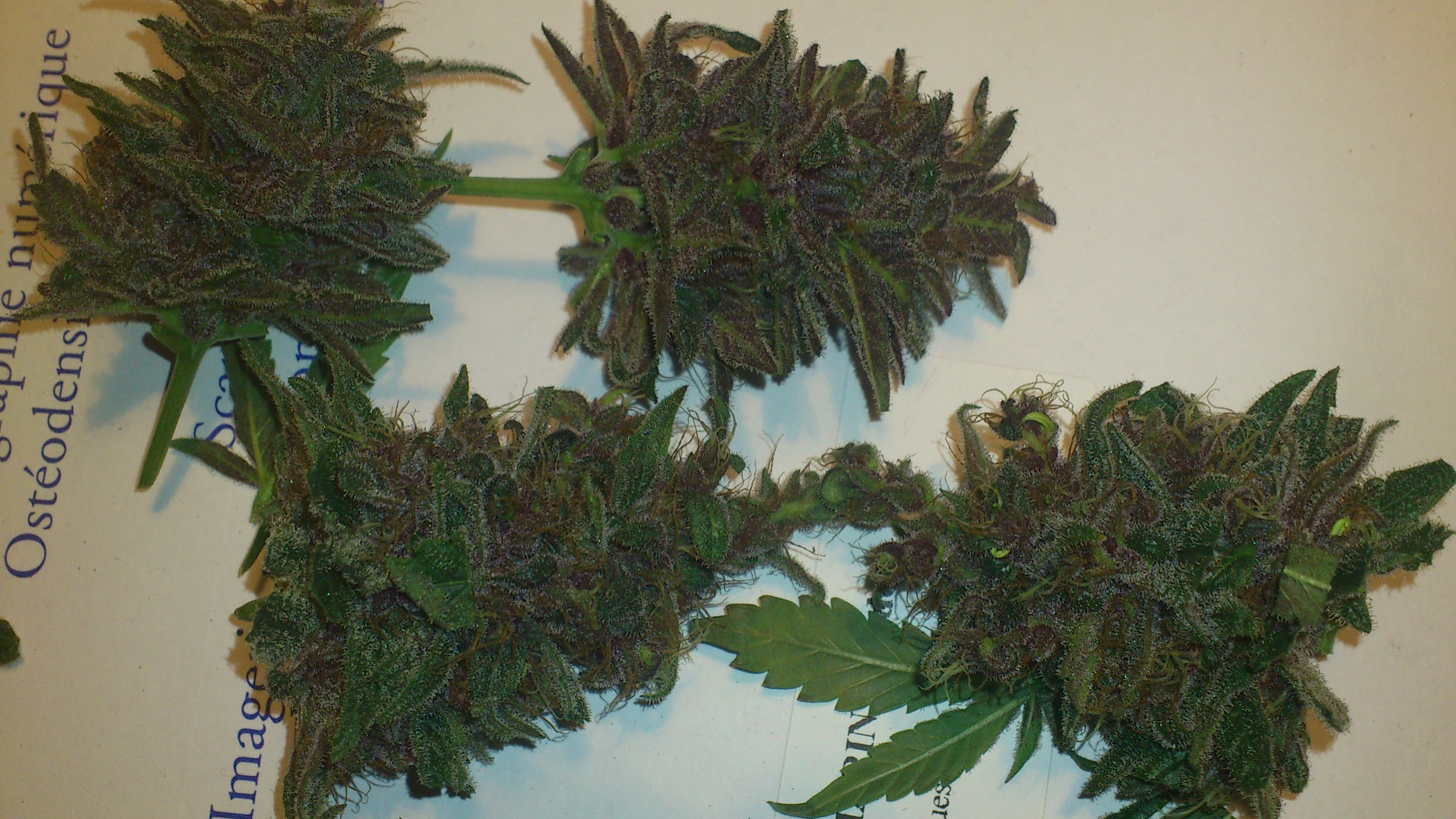 Buds of Purple Haze